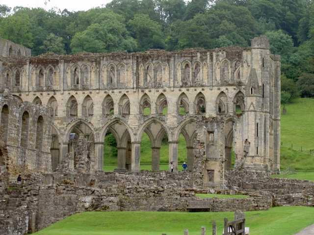 Part of the ruins of Rievaulx Abbey, Yorkshire in august 2004